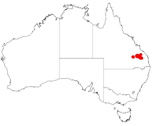 Acacia calantha Occurrence data from Australasia Virtual Herbarium downloaded from on 8 December 2018